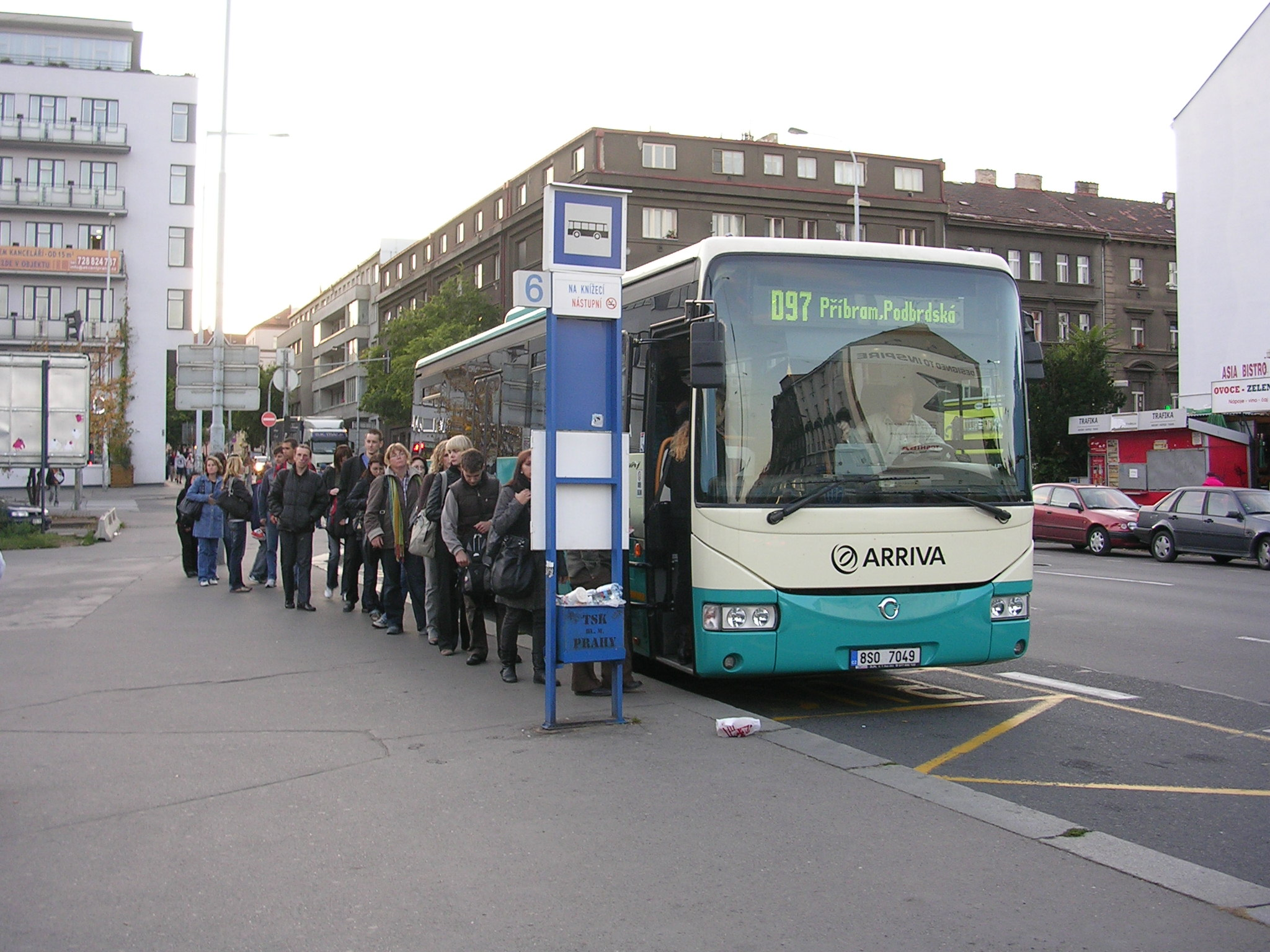 Smíchov, Prague, the Czech Republic. Bus of Bosák Bus Ltd. (Arriva Group)